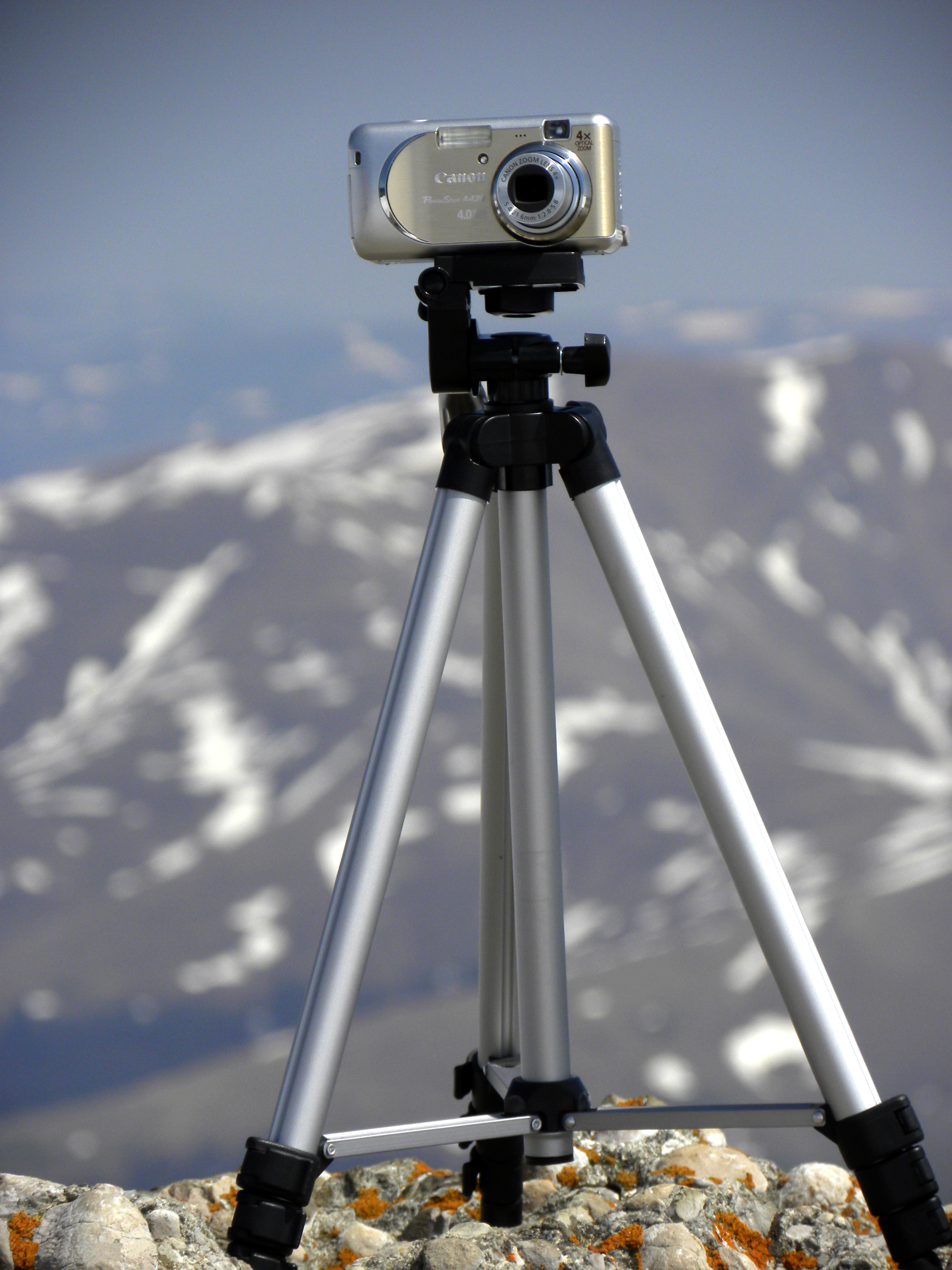 Canon PowerShot A430